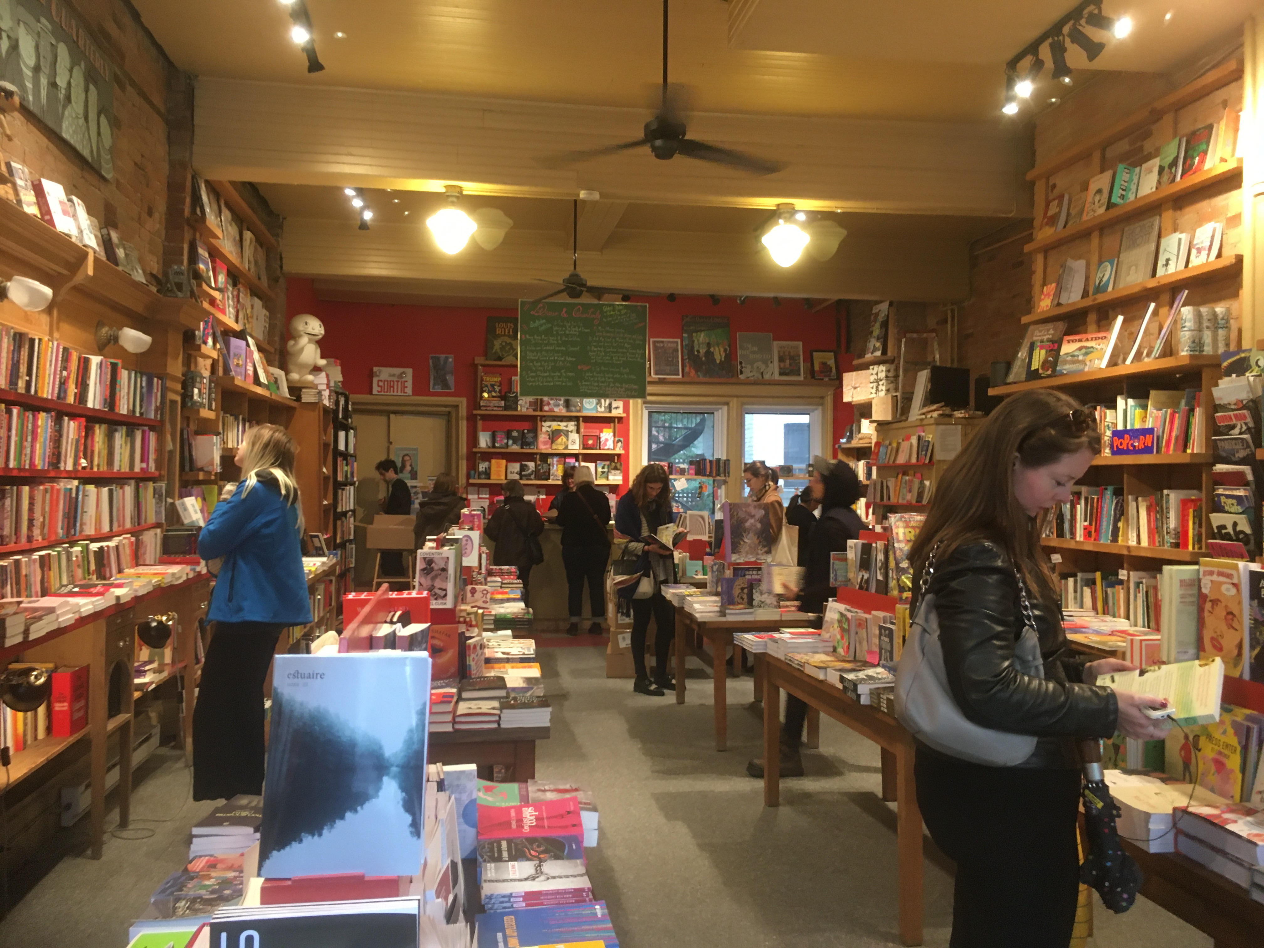 Interior shot of Drawn and Quarterly Bookstore, Mile End, Montreal